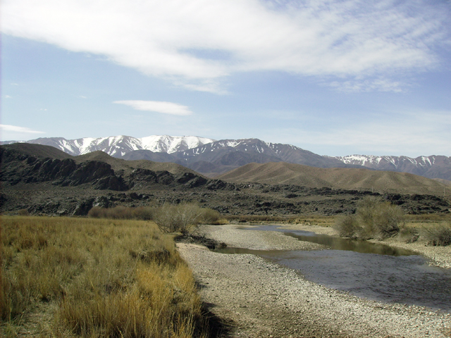 River Chu